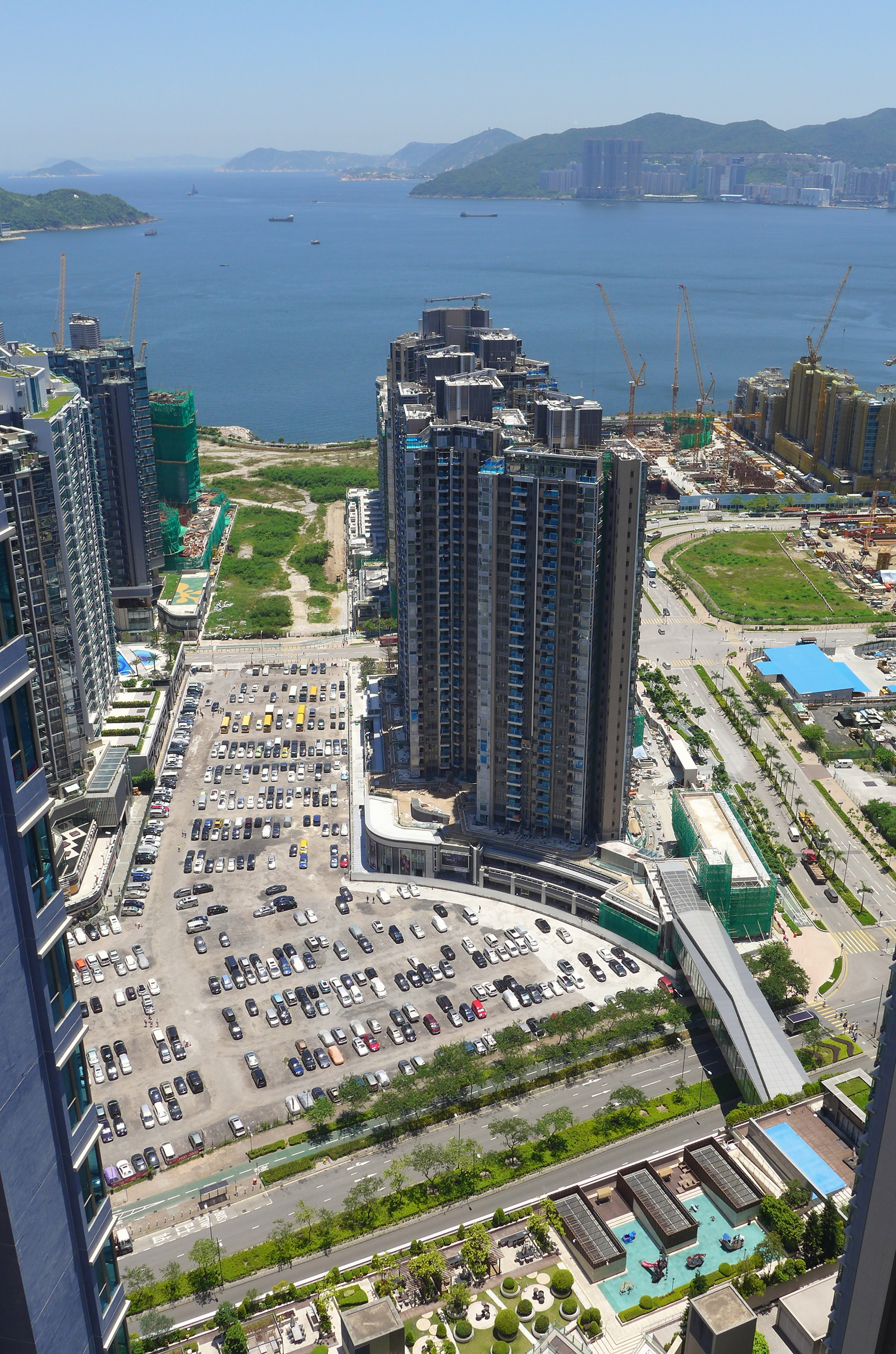 Tseung Kwan O South Central Avenue